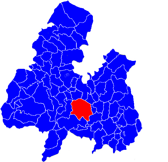 Map showing location of Glenkeen civil parish in North Tipperary